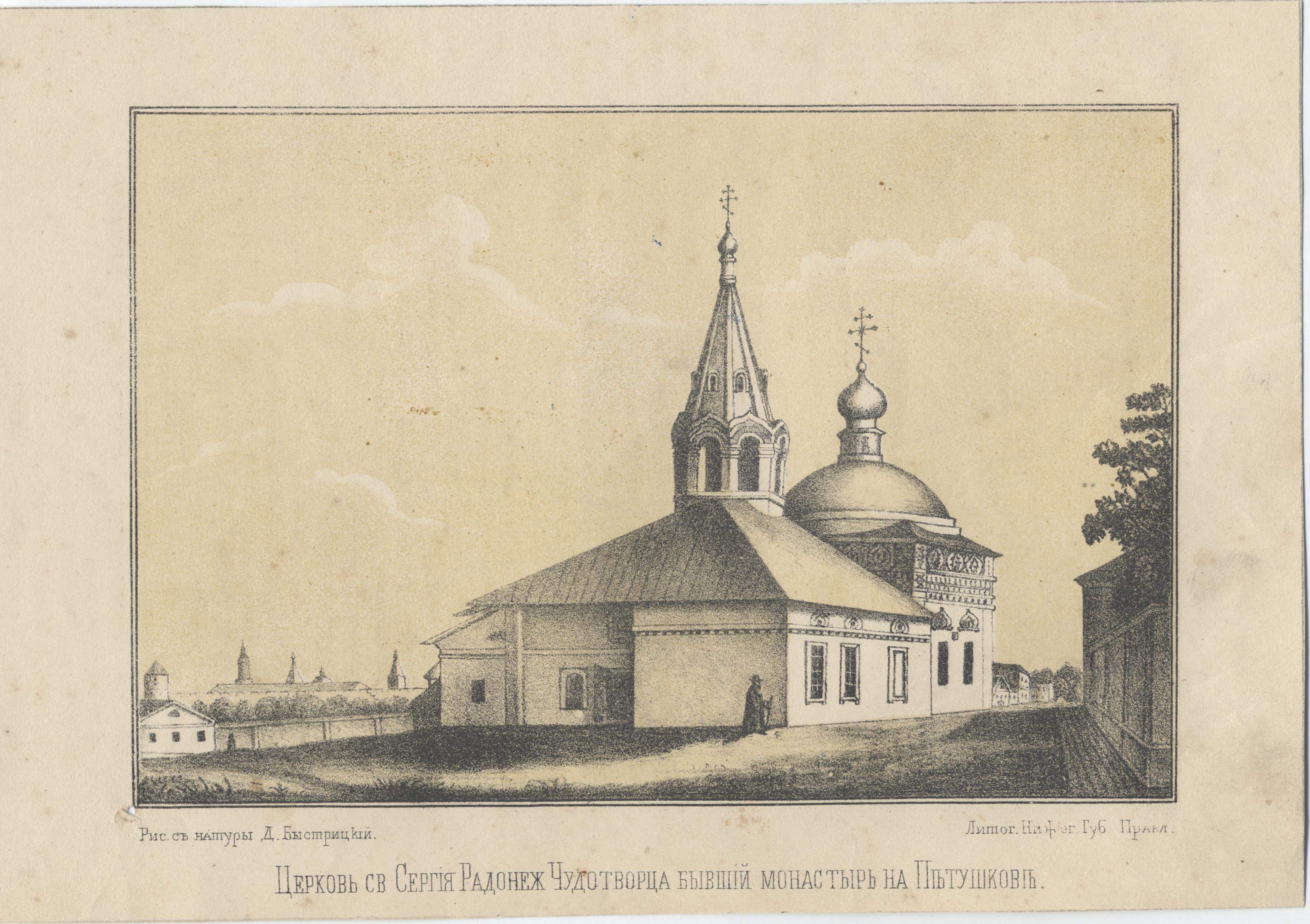 Nizhny Novgorod. Saint Sergius of Radonezh Church